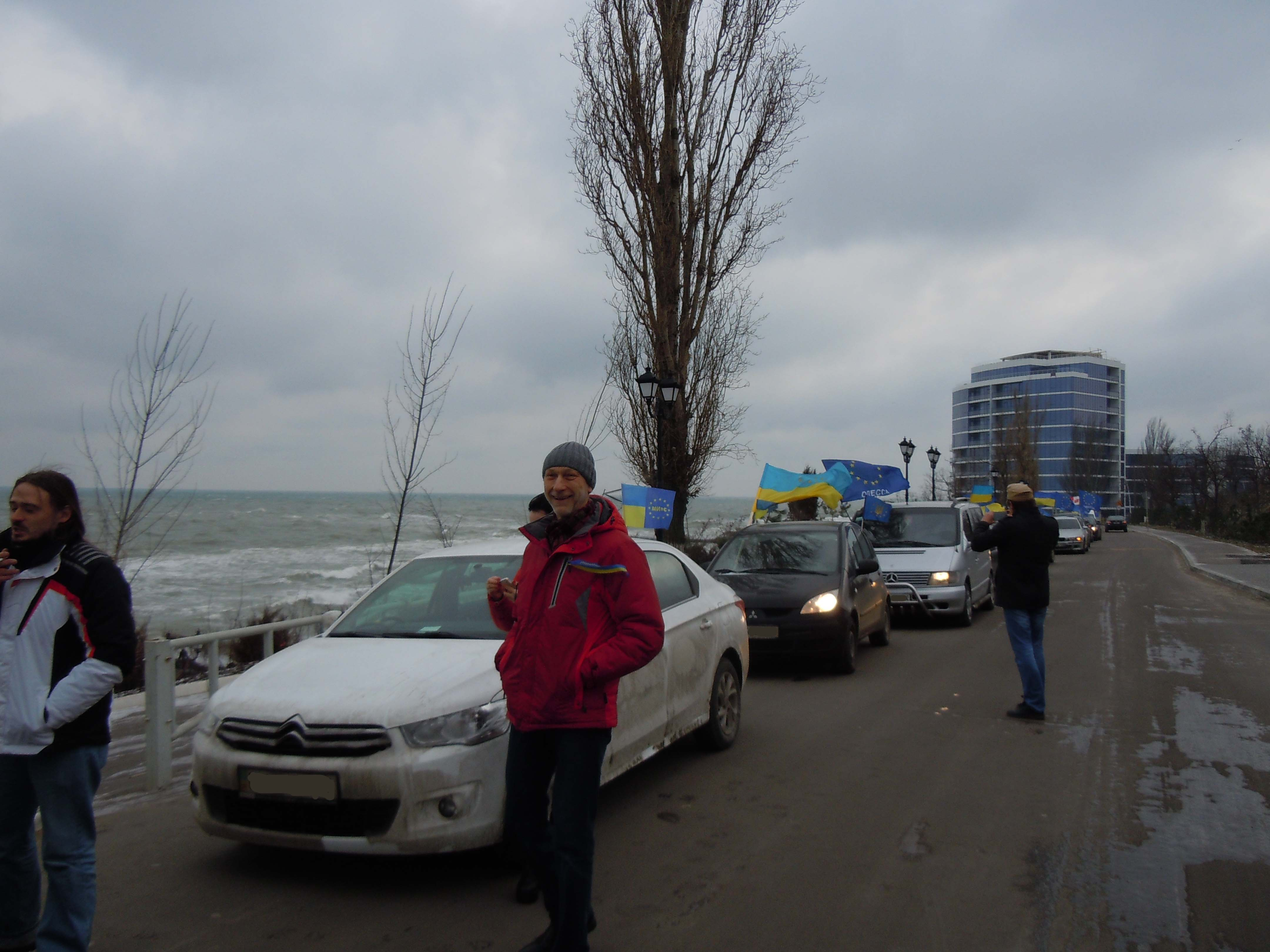 The procession Odessa AutoMaidan near the "Castle" of Serhiy Kivalov, 11 Station of Velykyi Fontan, Odessa